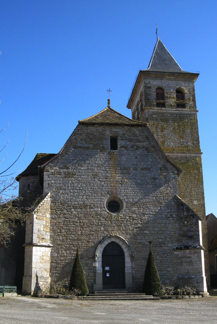 Picture of the church, Bio, Lot, France